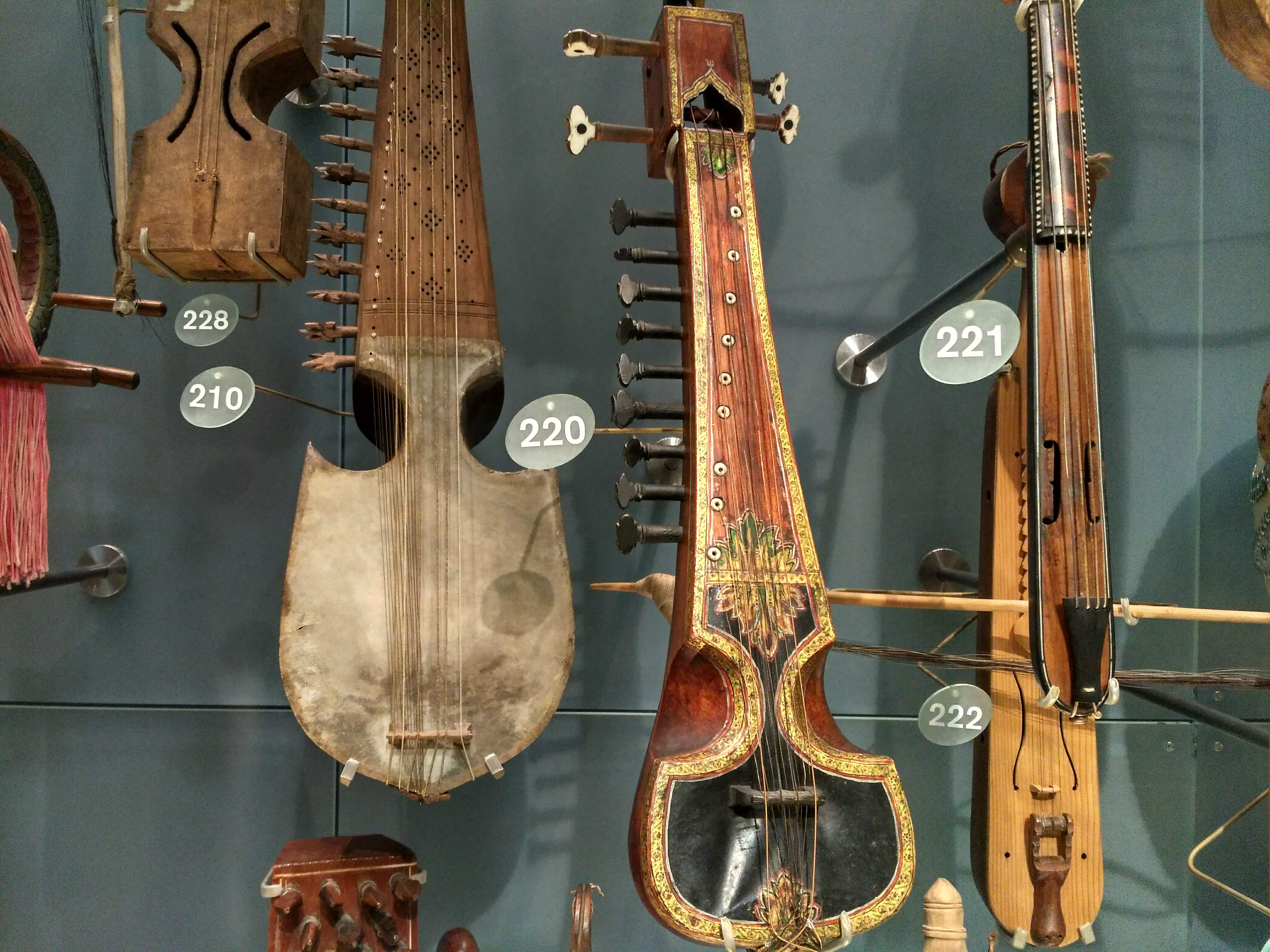 A set of images of musical instruments from the Horniman Museum in London, UK. Taken by Jo Dusepo 24/5/19